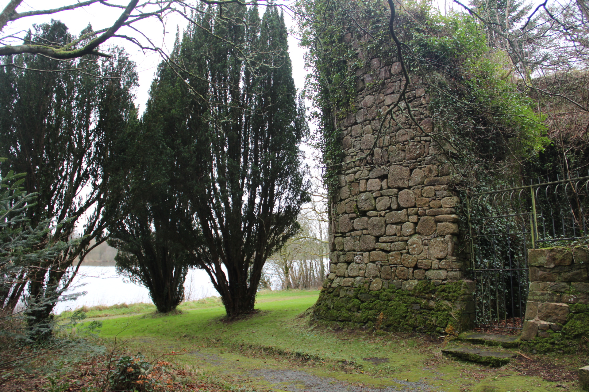 The medieval castle on the shores of Lough Rynn of the Mac Raghnaill family.